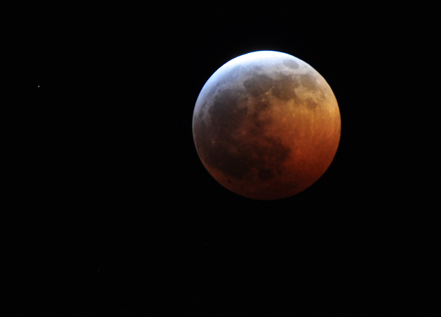 Lunar Eclipse, December 21, 2010, by Jiyang Chen